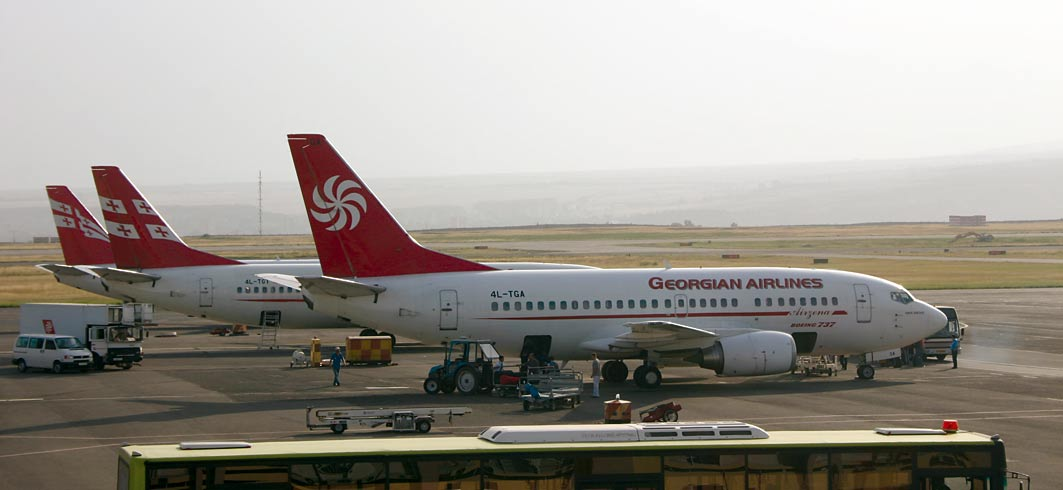 Georgian Airways